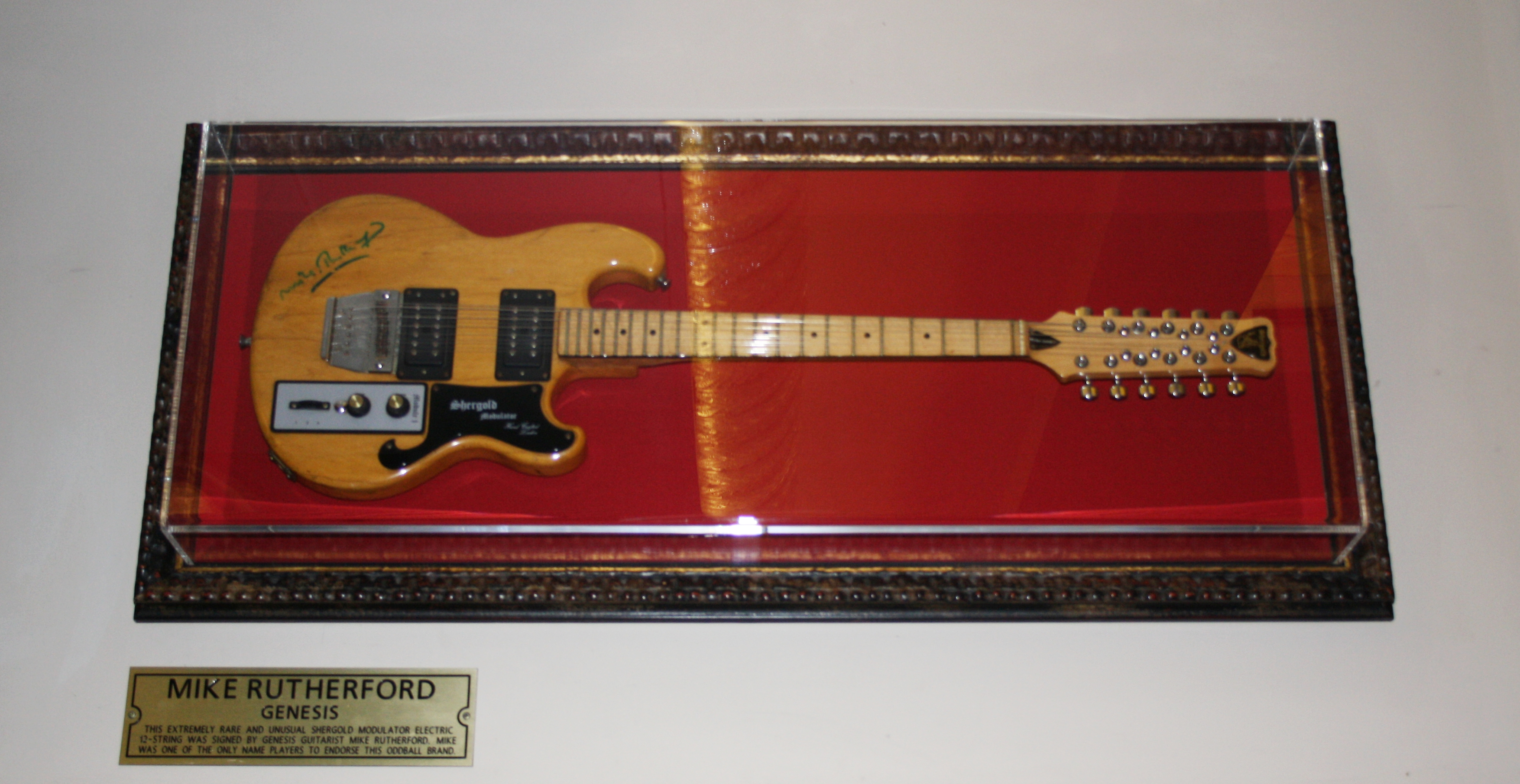 «This extremely rare and unusual Shergold modulator electric 12-string guitar was signed by Genesis guitarist Mike Rutherford. Mike was one of the only name players to endorse this oddball brand» Mike Rutherford 12-string Shergold guitar (Genesis) at the Hard Rock Cafe in Florence.